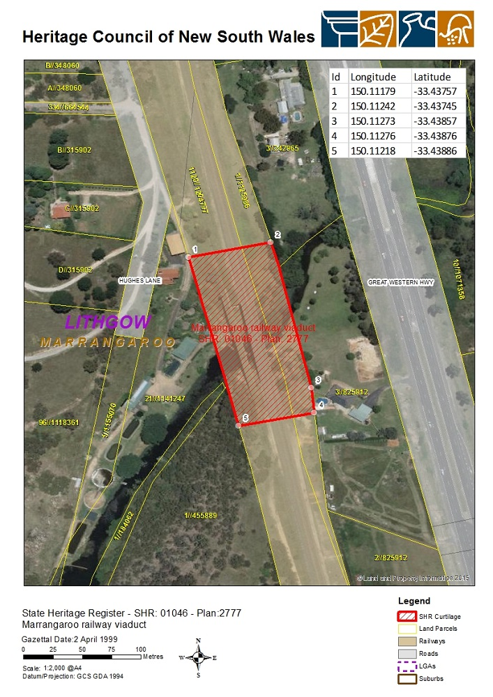 Marrangaroo railway viaduct: SHR Plan No 2777